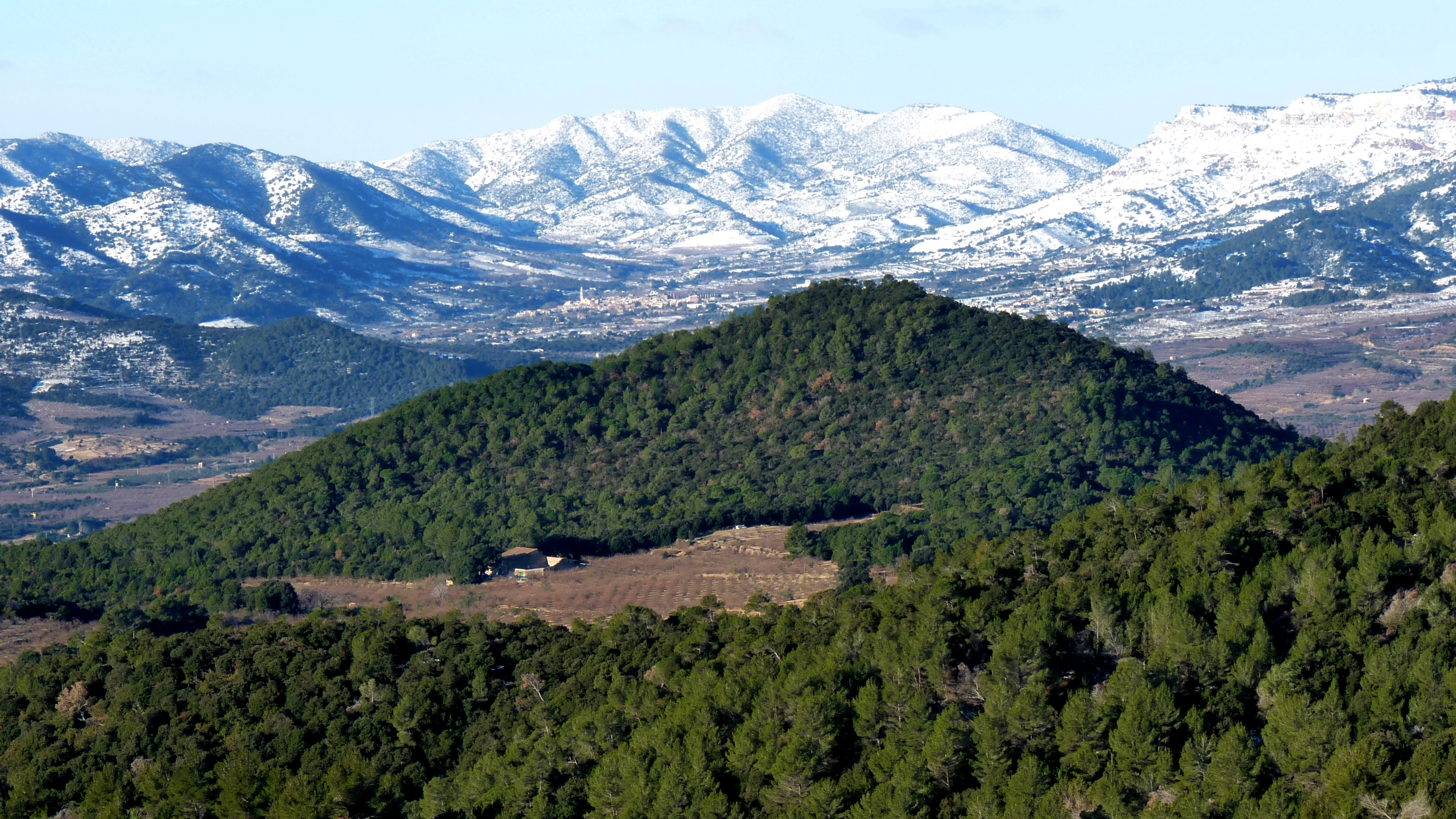 Puig d'en Gulló seen from Puig d'en Cama. Behind, the village of Alforja and the mountain of Puigcerver (snowed). Down on the left, the farm of Garrut.